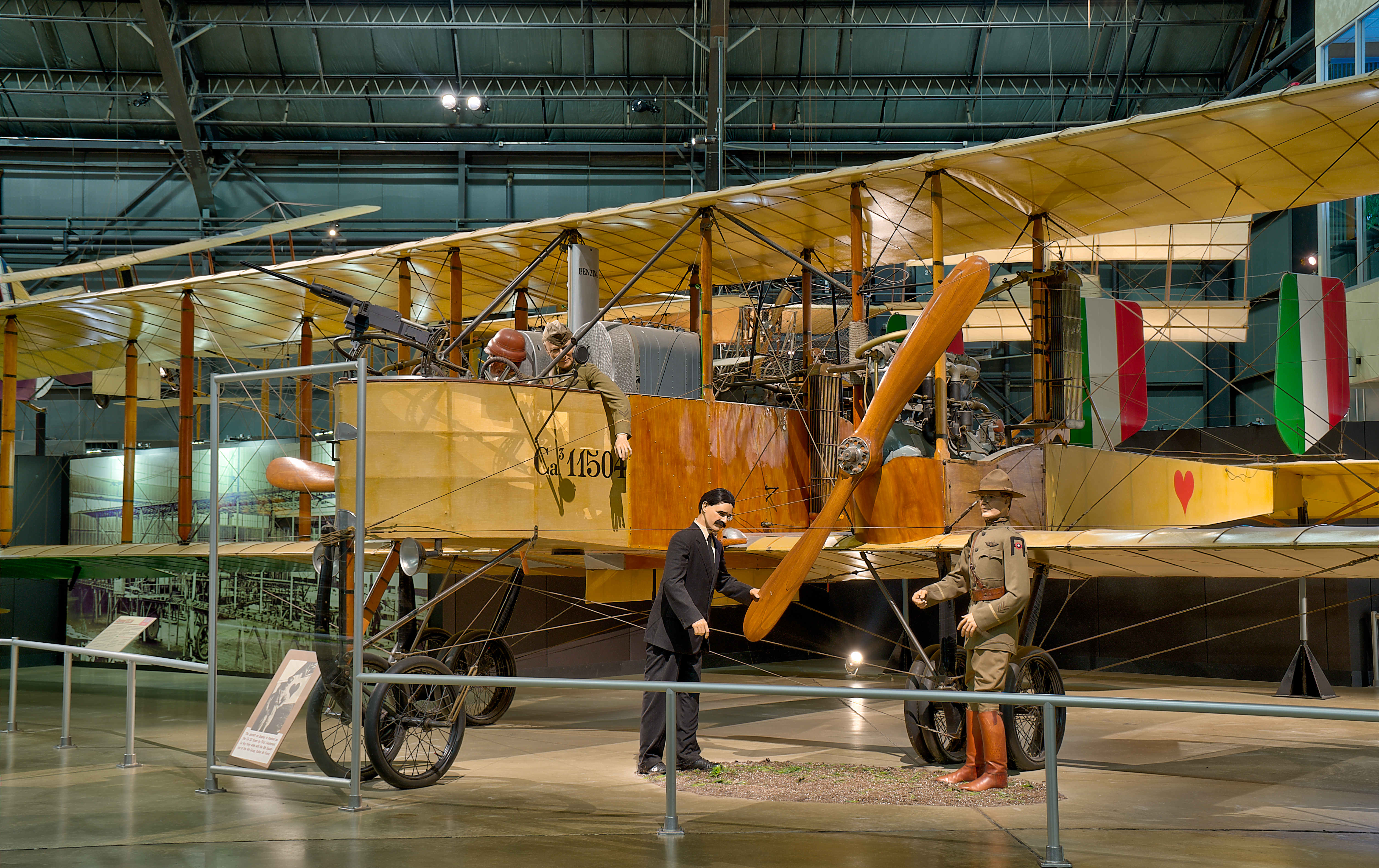 Caproni Ca. 36 bomber